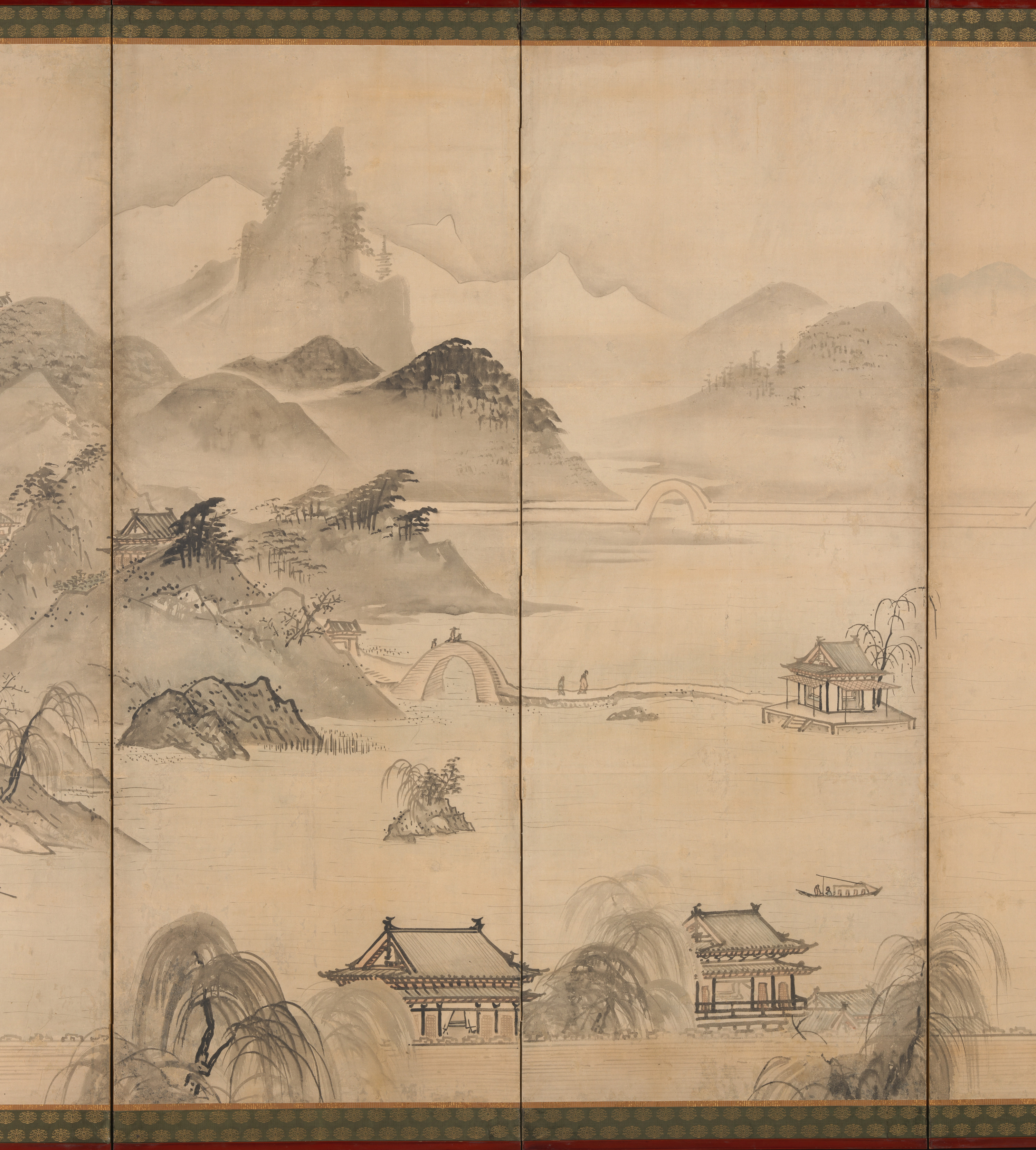 drawn lake,mountains,huts and bridge.